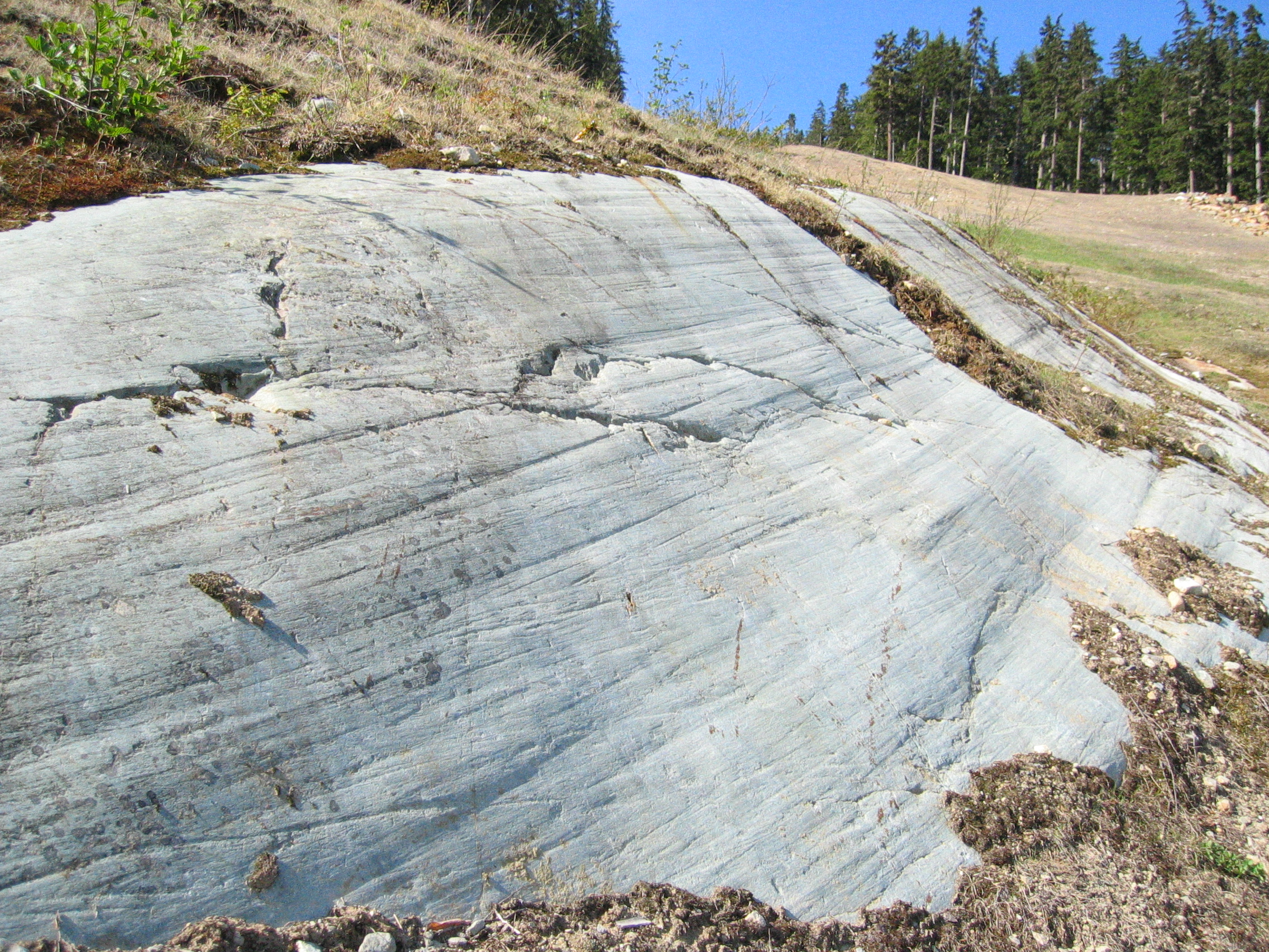 Glacial striations on granite.Whistler BC Canada